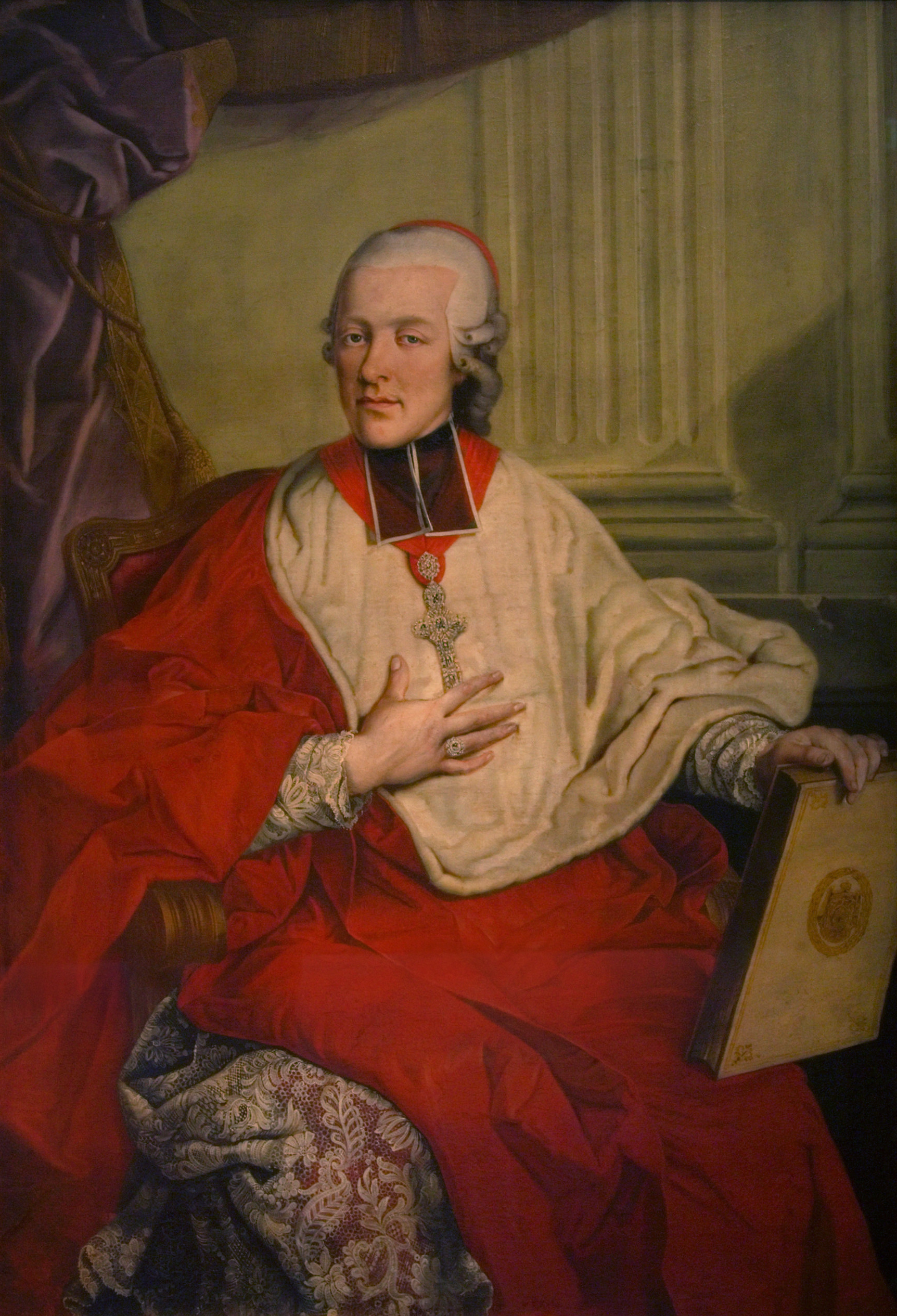 Hieronymus, Count of Colloredo, Prince-Archbishop of Salzburg